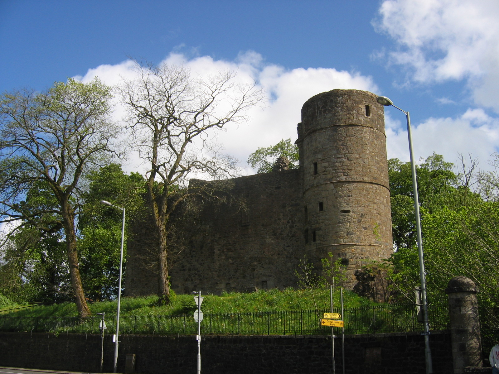 Strathaven Castle, in Strathaven, South Lanarkshire, Scotland. Taken by Supergolden, 27th May 2006.